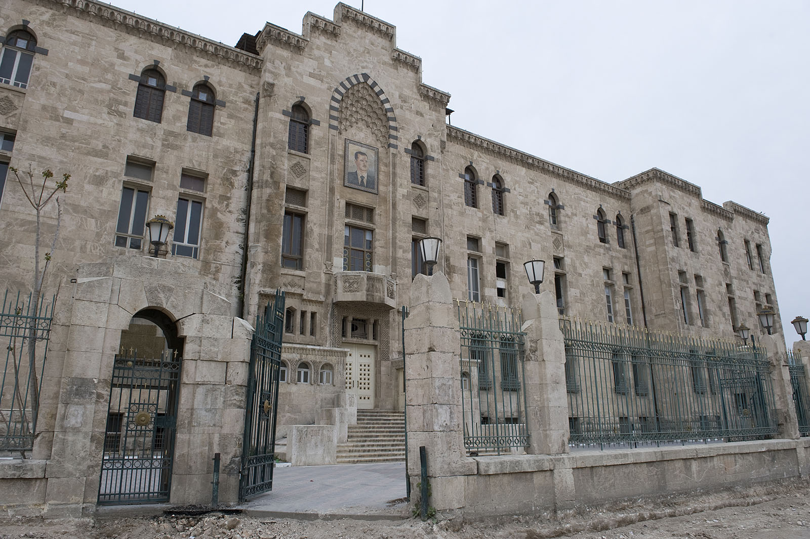 The building had a quite good architecture.